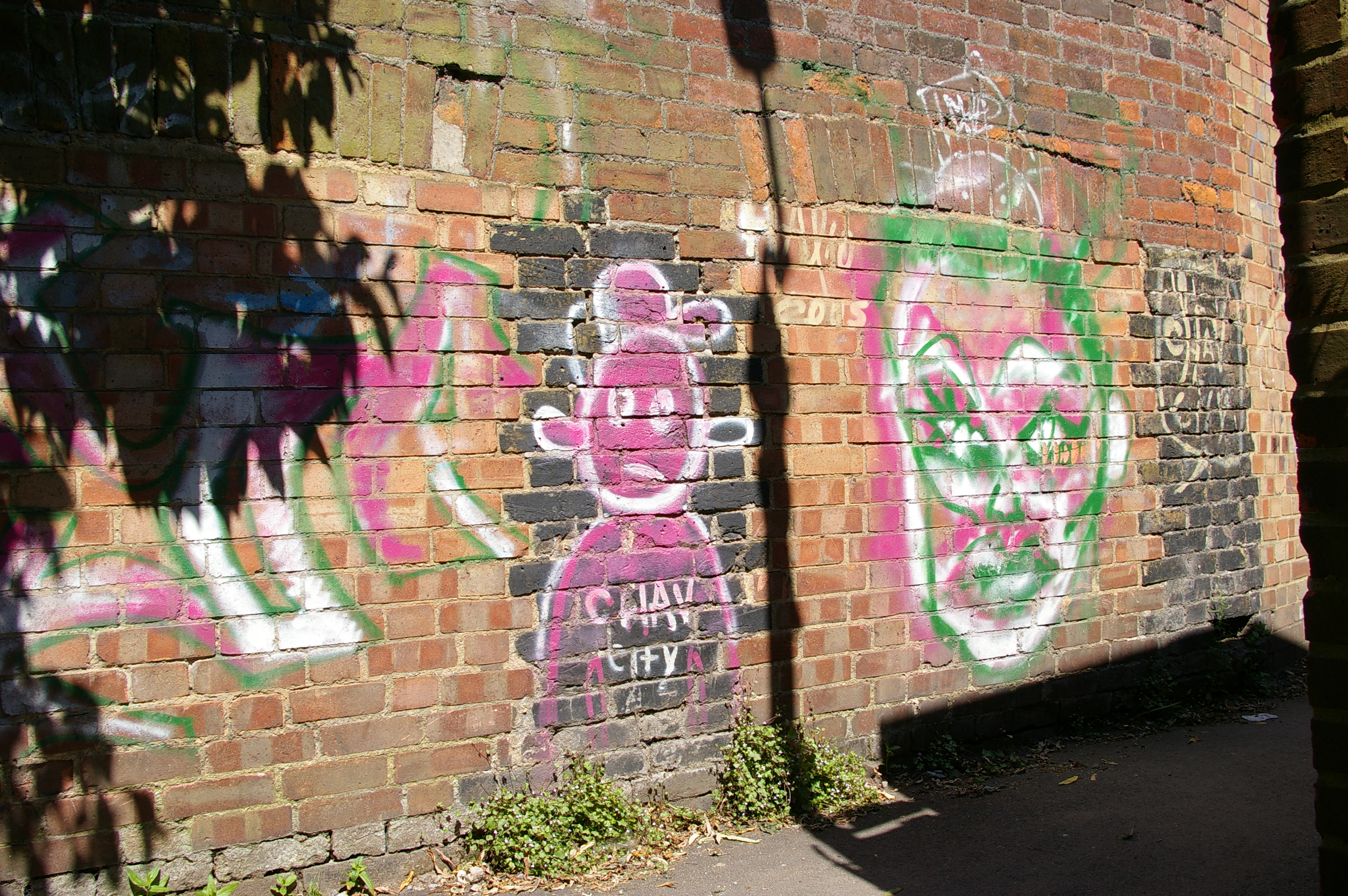 Graffiti with a "Chav City" image